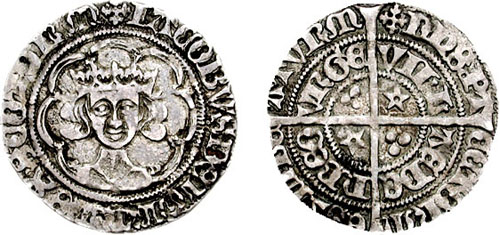 Scotland. James III of Scotland. AR Groat (2.25 gm, 1h). Light issue, circa 1482. Edinburgh mint. Crowned facing bust in tressure of seven arcs VILL A EDE nBEO VRGE, long cross with pellets and mullets. Burns p. 123, 24/23 (fig. 605); SCBI 35, 763 (same reverse die); SCBC 5280. VF, toned, clear portrait. Ex Dr. James Davidson Collection (includes fine old collection ticket).